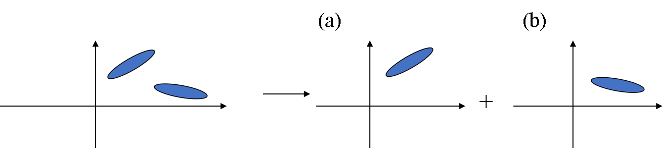 separate the frequency components from analytic signal conversion